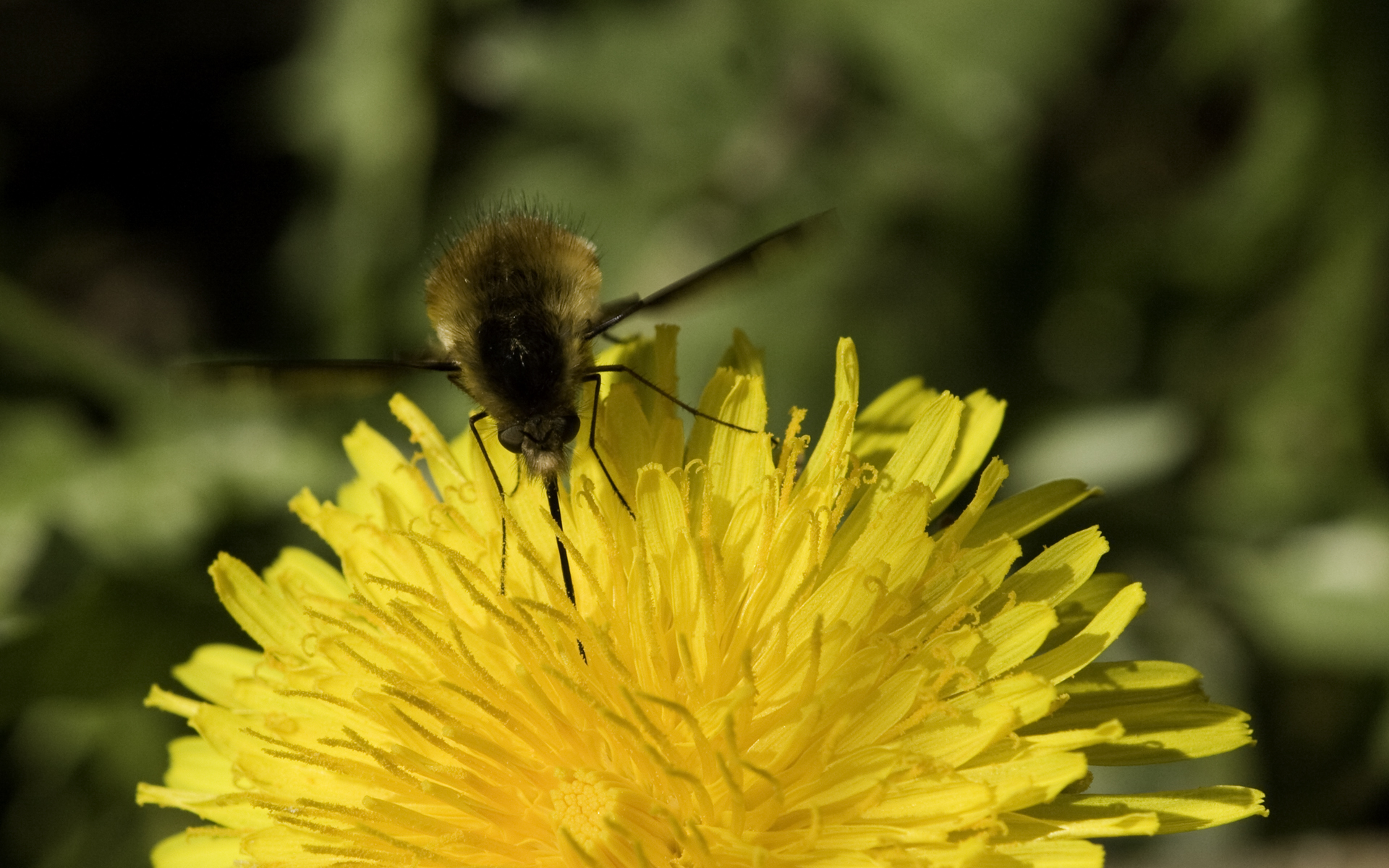 Bee-fly (Bombylius major) is a large genus of flies belonging to the family Bombyliidae (the bee-flies). The genus has a global distribution.